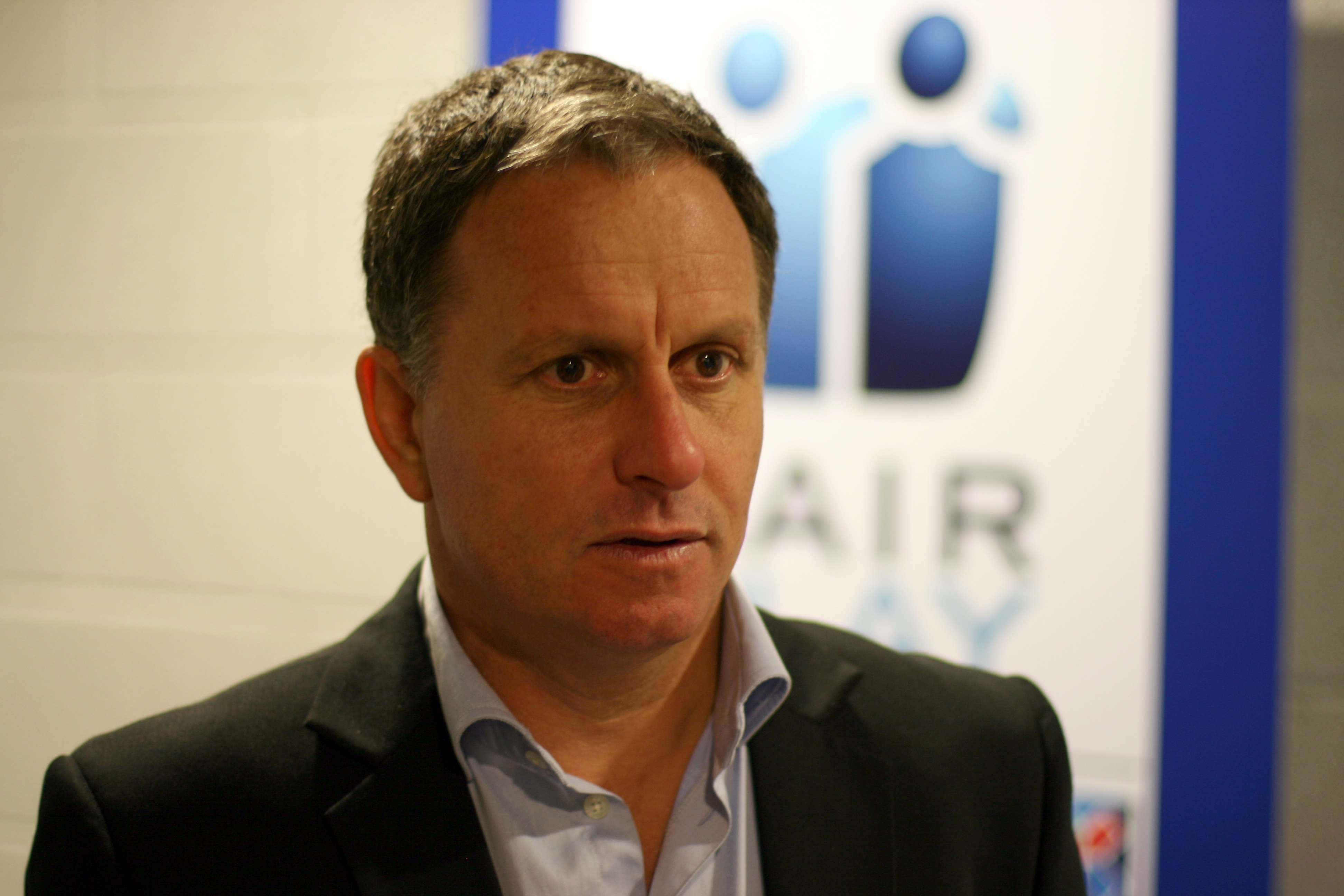 Swedish football manager Jan Jönsson.